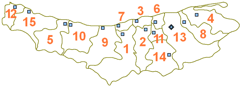 Administrative divisions of Iran's Māzandarān Province.